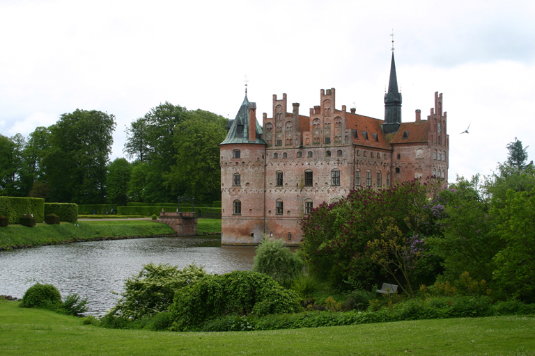 Caption: Egeskov Castle exterior view